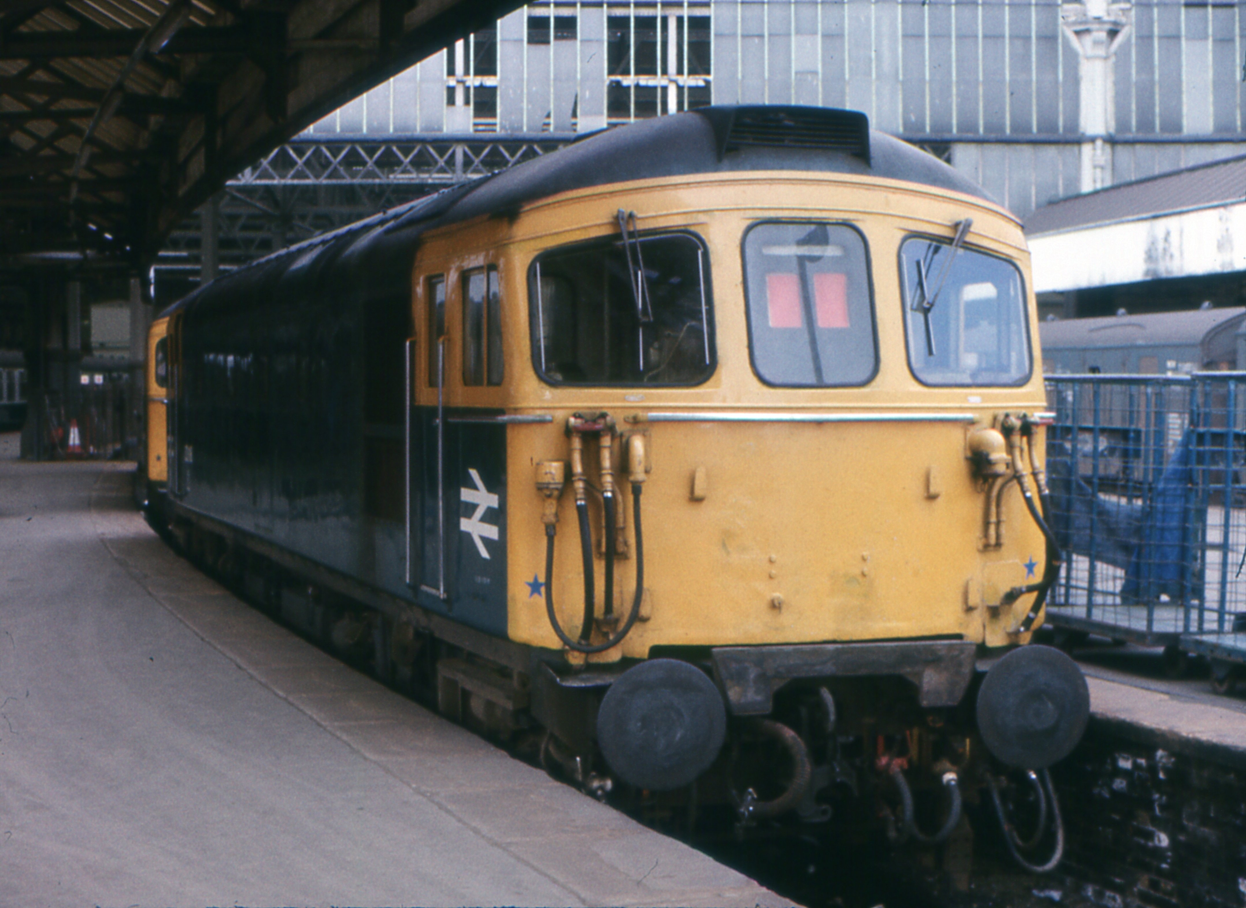 Class 33/1 No. 33 118 awaits its next turn of duty at Waterloo station London. Camera: Olympus Pen F Half Frame SLR. Film: Kodachrome II.